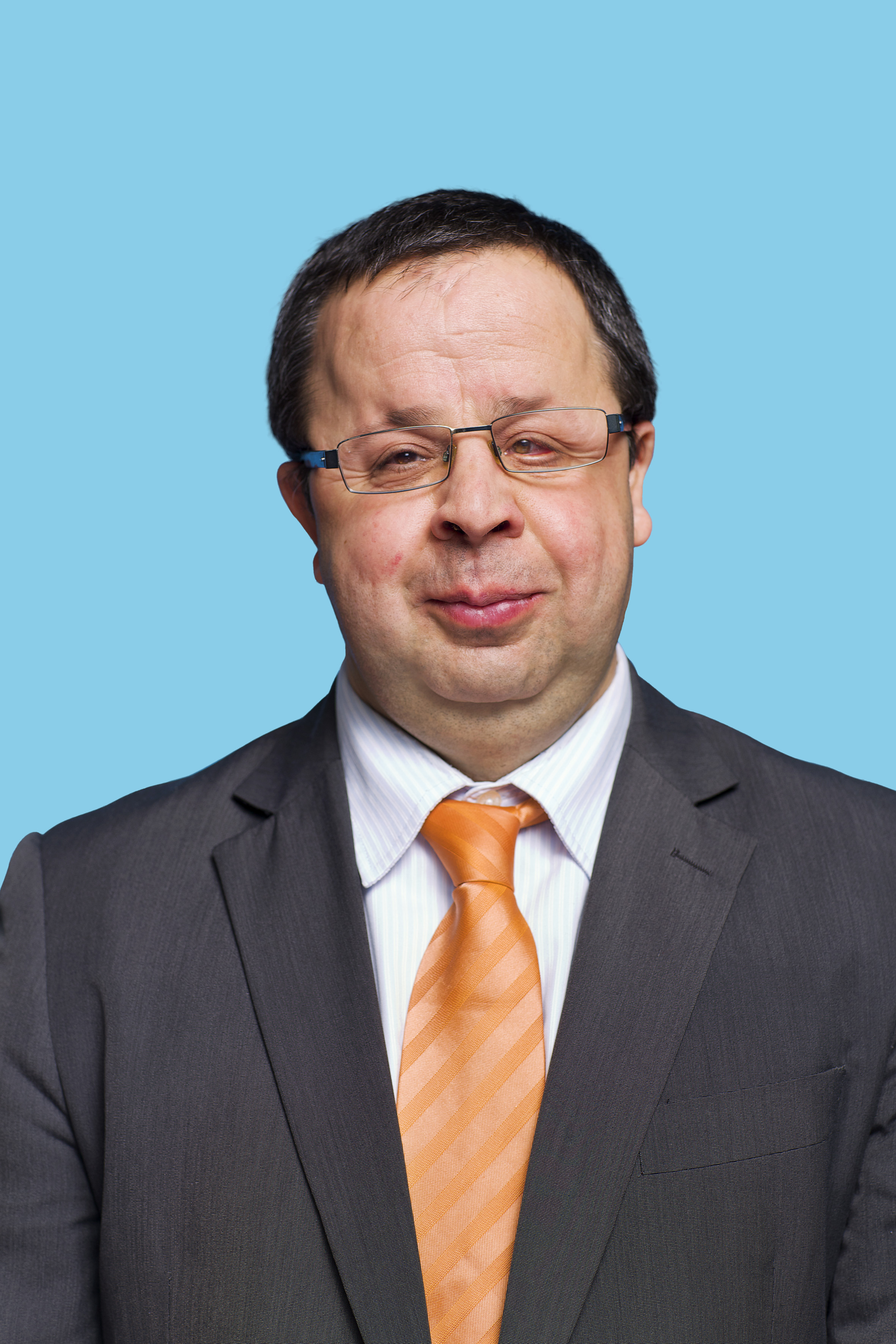 Kandidaat Partij van de Arbeid voor het Europees Parlement. Op pvda.nl de volledige lijst: bit.ly/1b9r60a